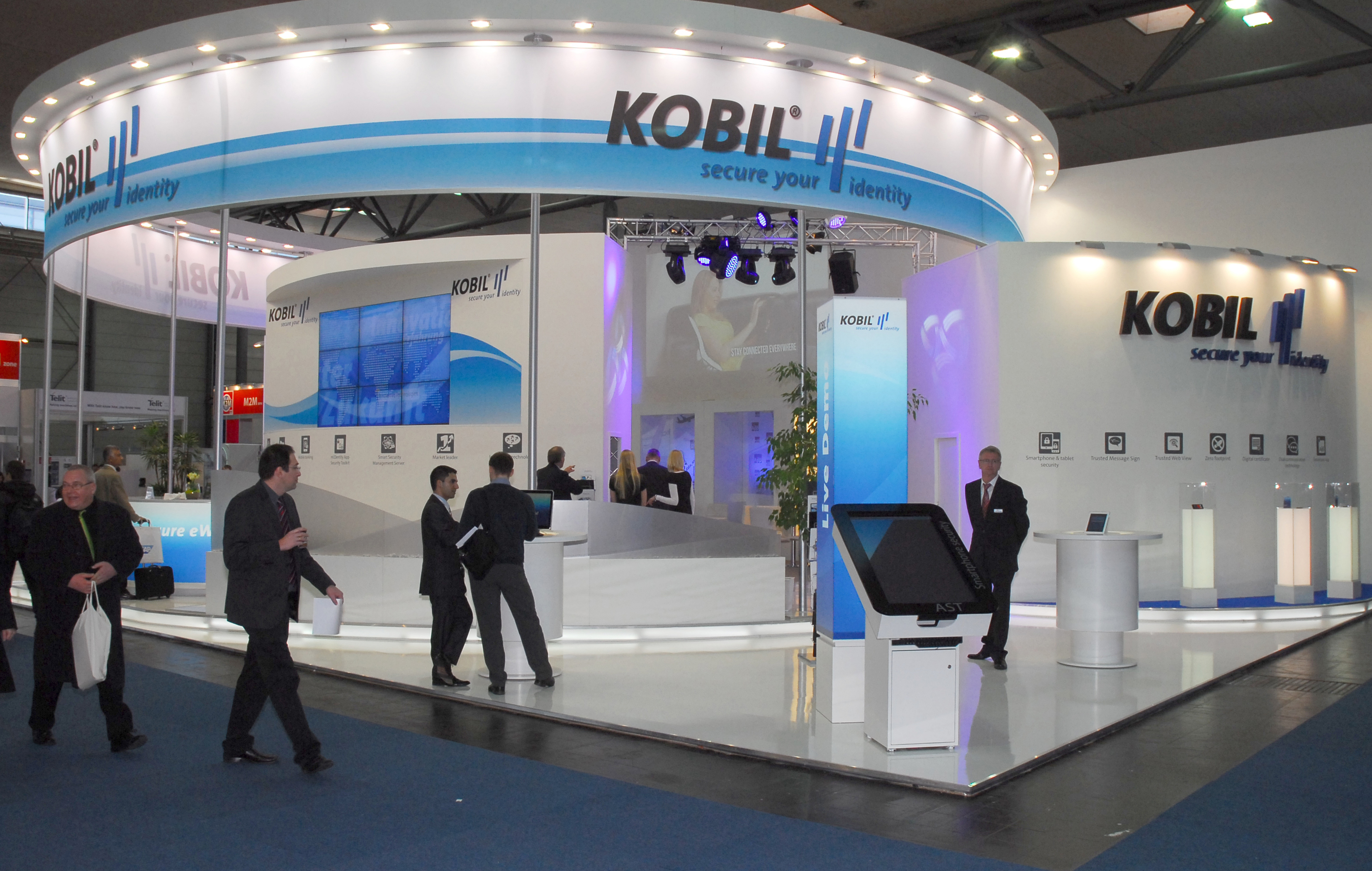 KOBIL participation in Cebit 2012